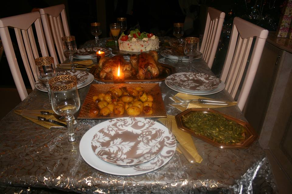 This is an image of food from Algeria